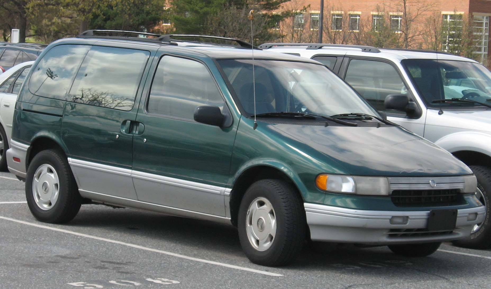 1993-1995 Mercury Villager photographed in USA.